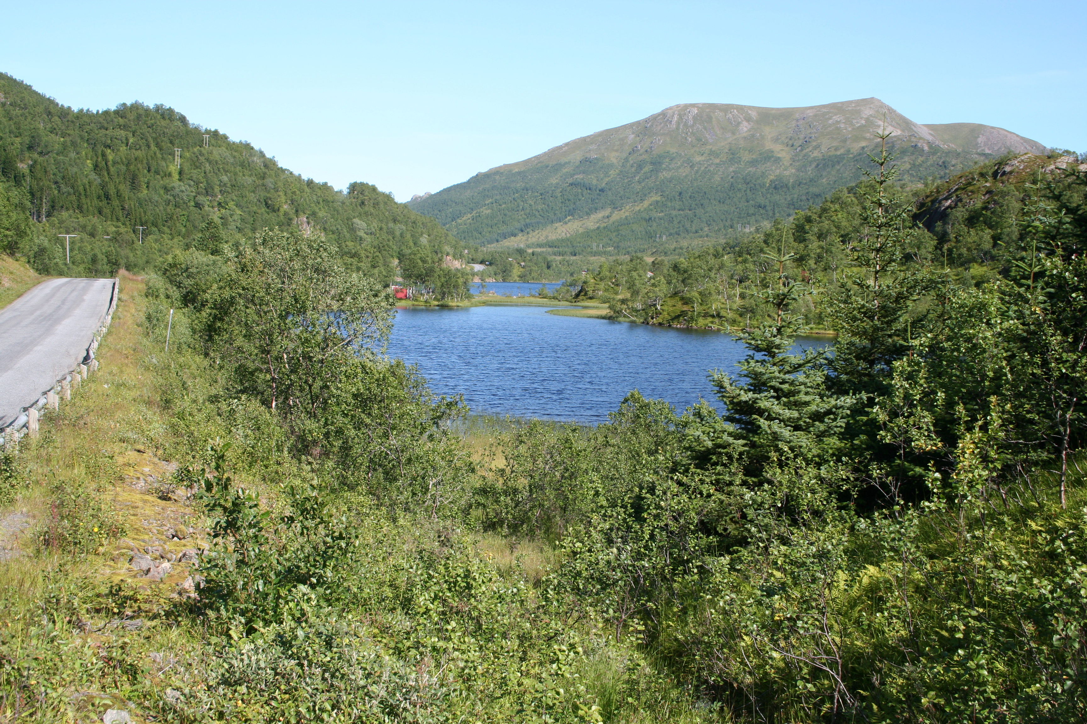 Lake Storvatnet at Frøskelandseidet, Norway. This picture was taken by me on 4 August 2006.